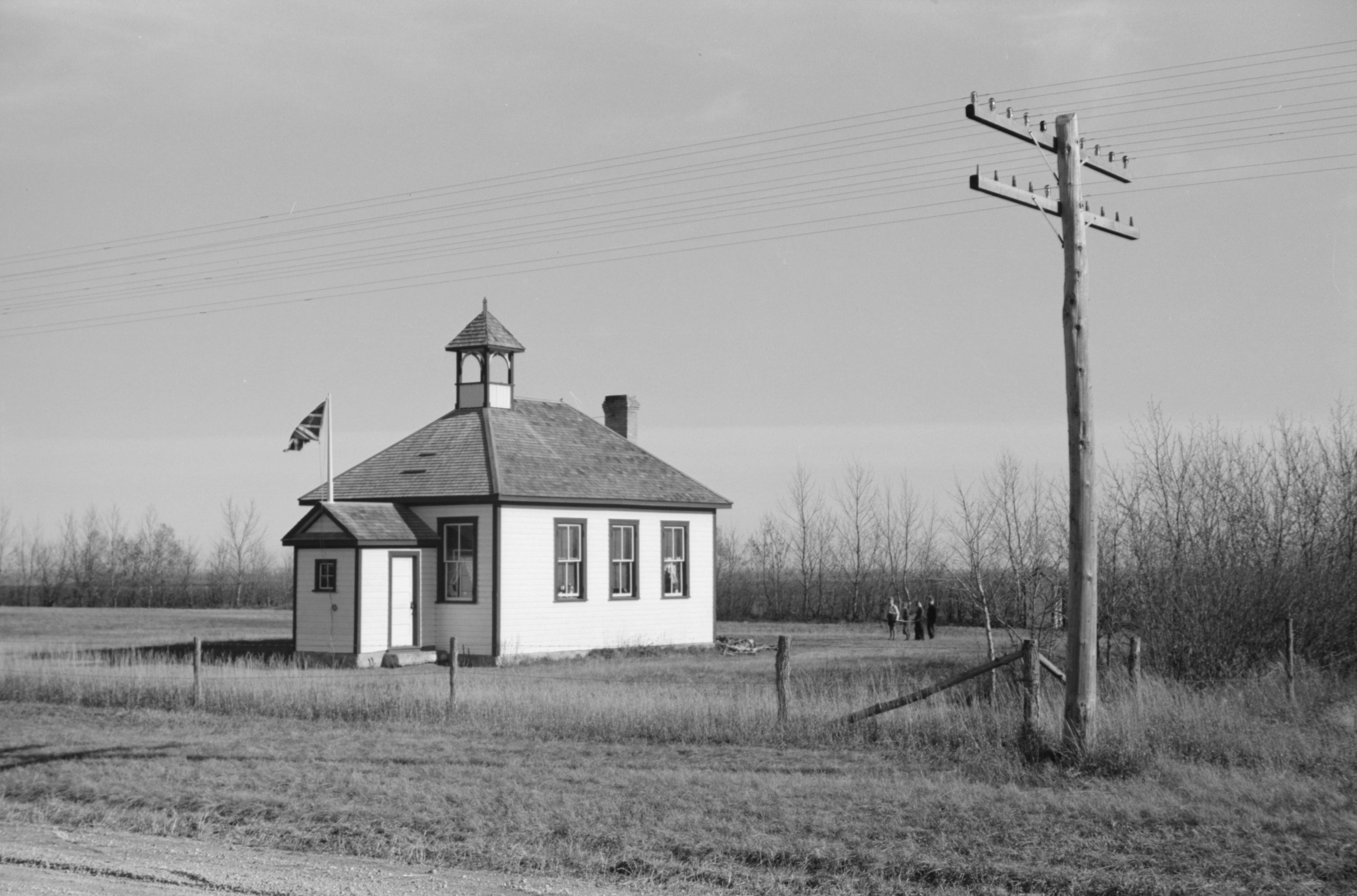 Rural school near Killarney, Canada (Manitoba)